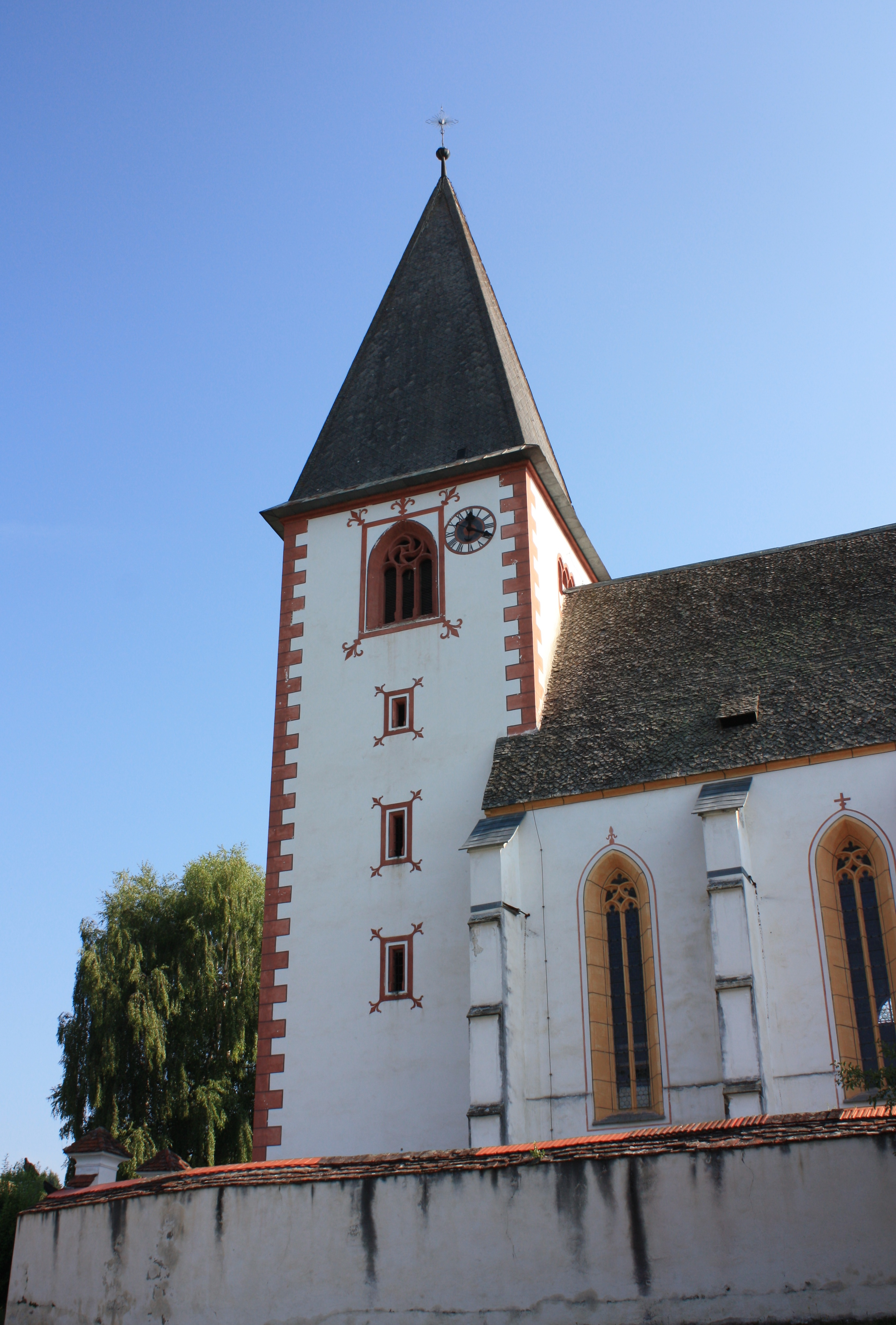 Parish- and pilgrimagechurch "Assumption of Mary" in Pustritz in the community of Griffen